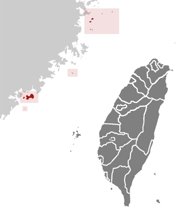 Location of the Kinmen and Lienchiang counties of the Republic of China relative to Taiwan and mainland China. Made by uploader using Image:Taiwan Strait.png as base map. Borders were taken from User:試吃那人's locator maps for Taiwanese counties. The faded box idea was borrowed from User:Nichalp's locator maps for Indian states.